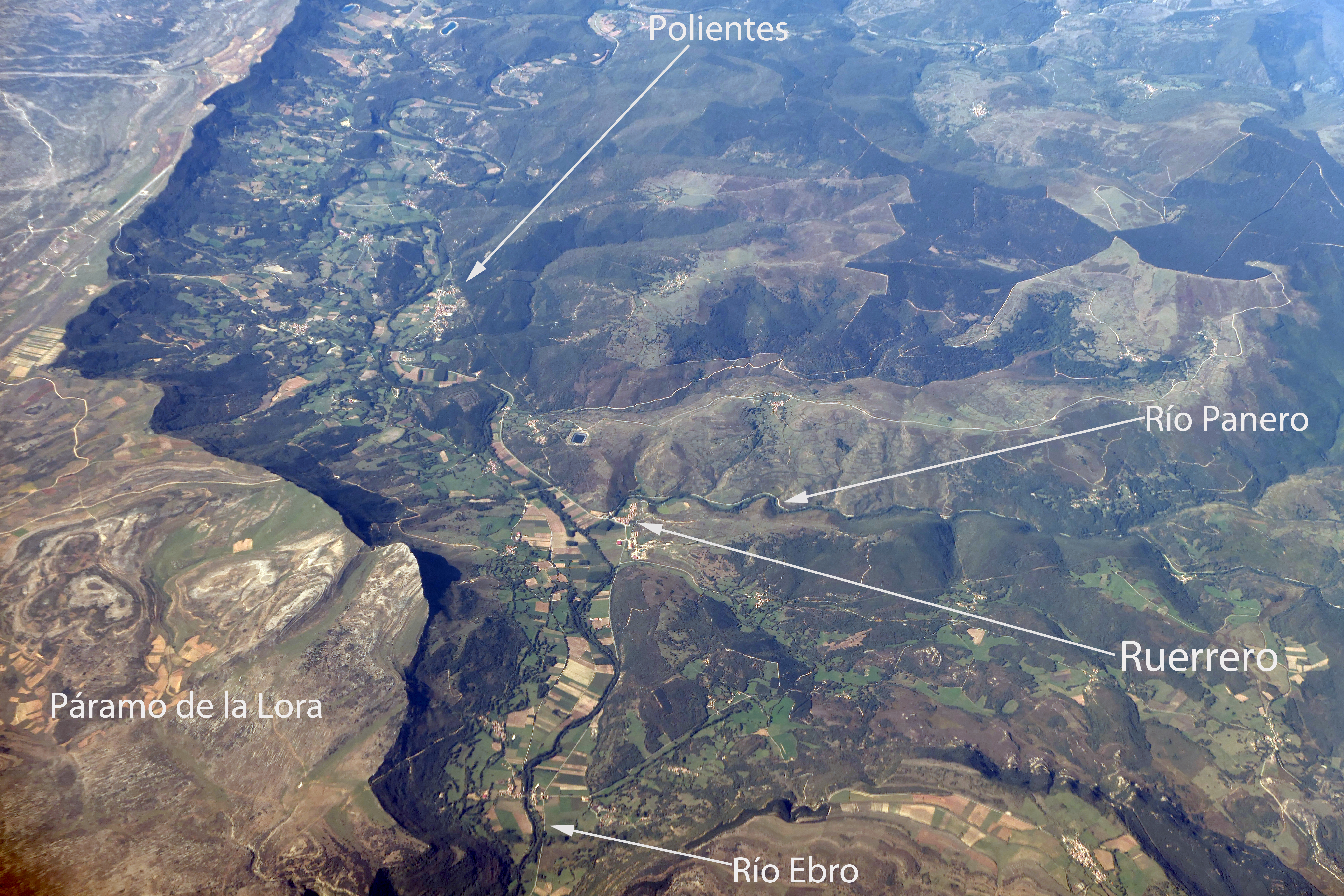 An aerial view of part of Cantabria, in the north of Spain. The photograph includes the villages of Ruerrero and Polientes, and the river Ebro.